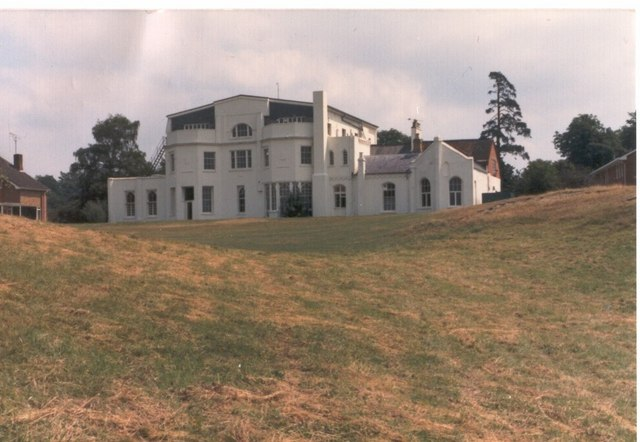 Shinfield Park ("Goodrest") and its history The building is a converted 17th century ornamental Gothic mansion built in 1630 by Sir Francis Englefield and known as “Goodrest”, so named (it is said) because, during the Civil War, it was where an exhausted Cromwell stayed in 1643 after the battle of Newbury. The estate is also known by its original name, Shinfield Park, and in the map of 1882, such was the size of the gardens and orchards to the south of the mansion that some twenty gardeners were needed to look after them. A retired judge of the Indian Civil Service, John Dawson Mayne (1828-1917) from an Irish family, lived here with his second wife Annie Katherine from 1877 until his death. He was famous for having written the first Indian Penal Code (later expanded by Coutts-Trotter). After his death the north-west half of the grounds were sold off for housing which necessitated the filling in of a lake. The remainder of the estate is now a school (Crosfields School , part of the Leighton Park Trust) enveloped by the expansion of Reading.